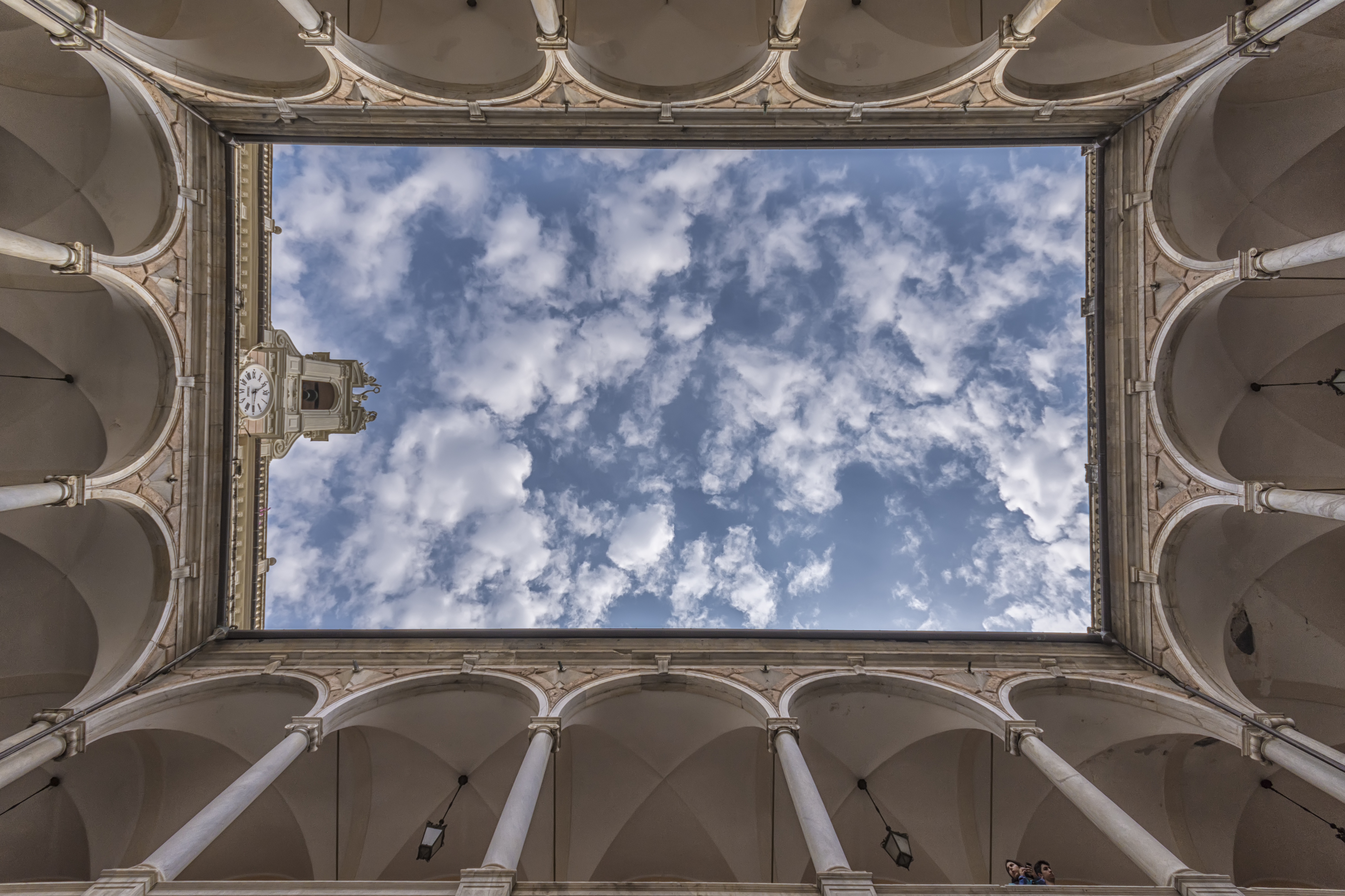 View from below of Doria-Tursi Palace, Genoa This is a photo of a monument which is part of cultural heritage of Italy.